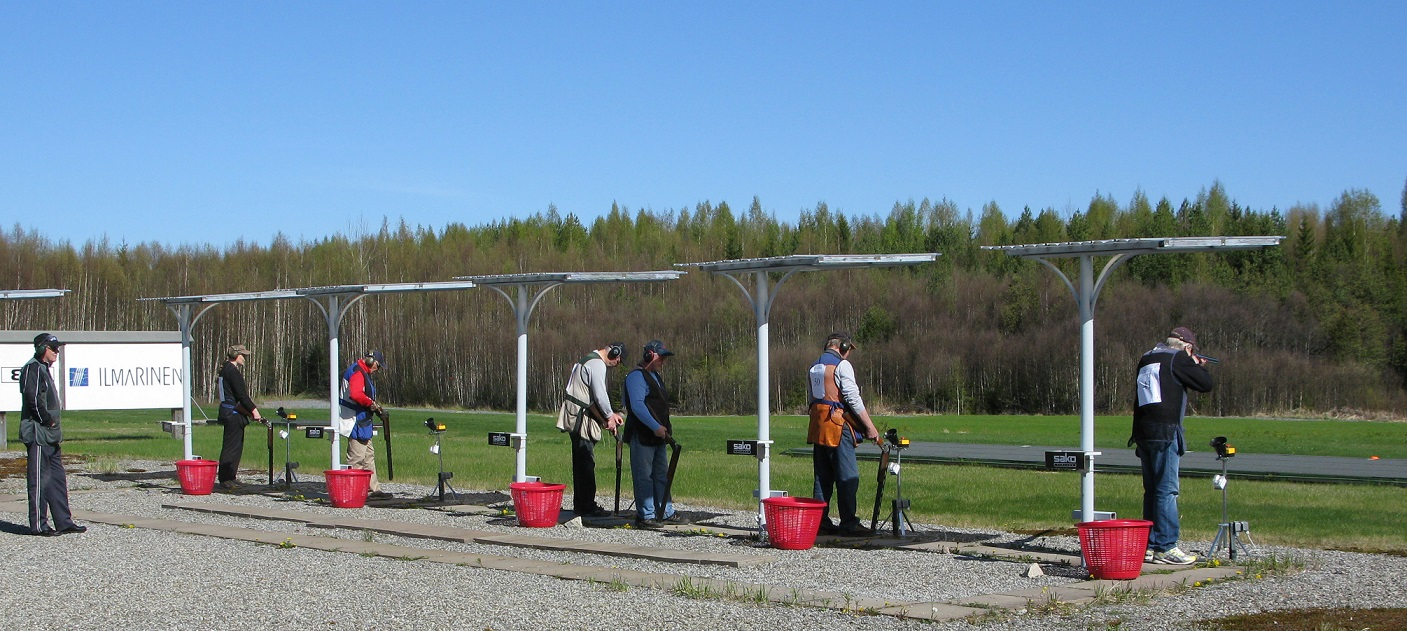 Trap shooting at Kokkovuori shooting range, Finland.